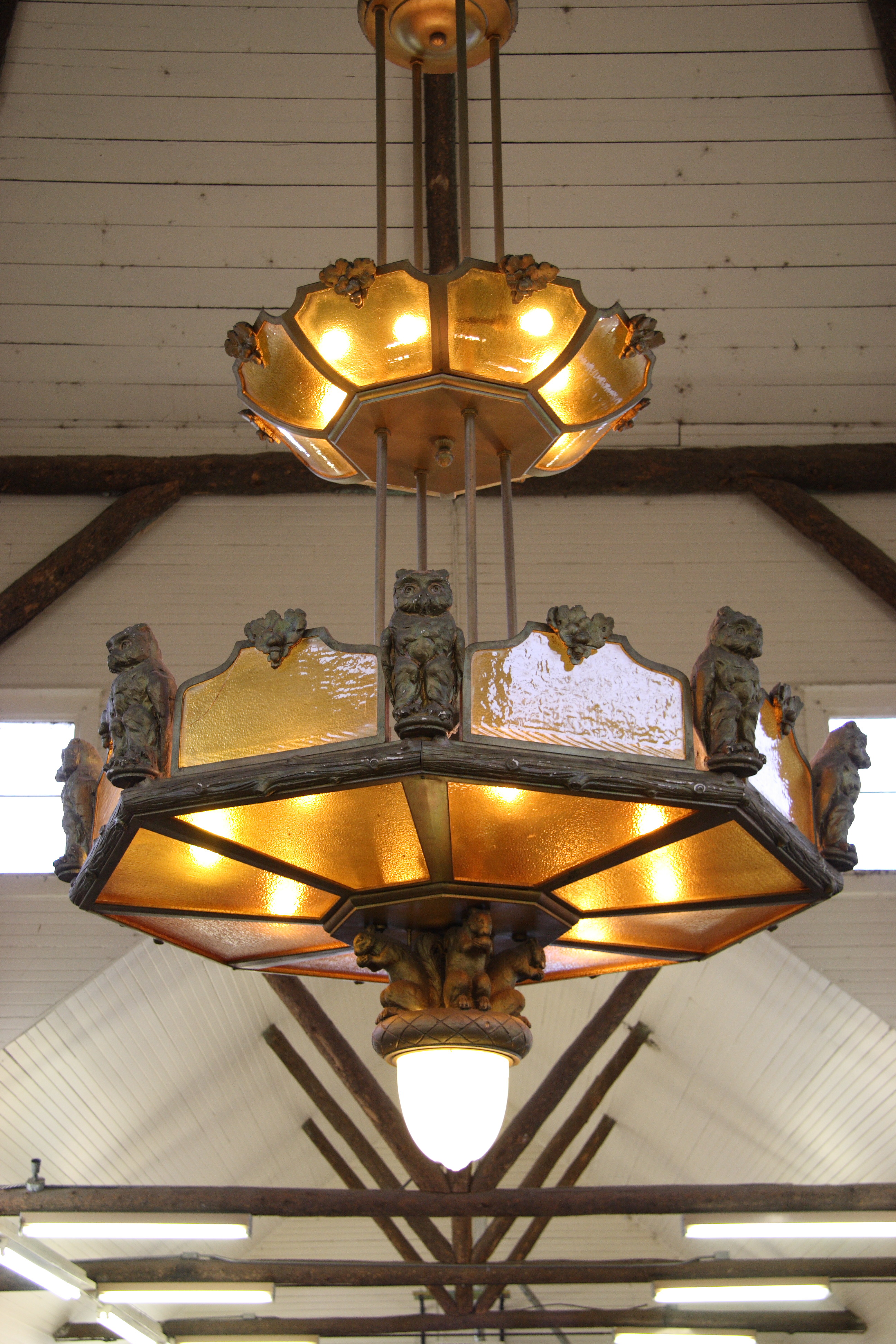 Detail of chandelier in the Hamilton's Store, Lake, Yellowstone National Park, Wyoming, USA